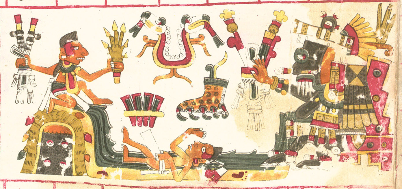 A drawing of Tlaloc, one of the deities described in the Codex Borgia